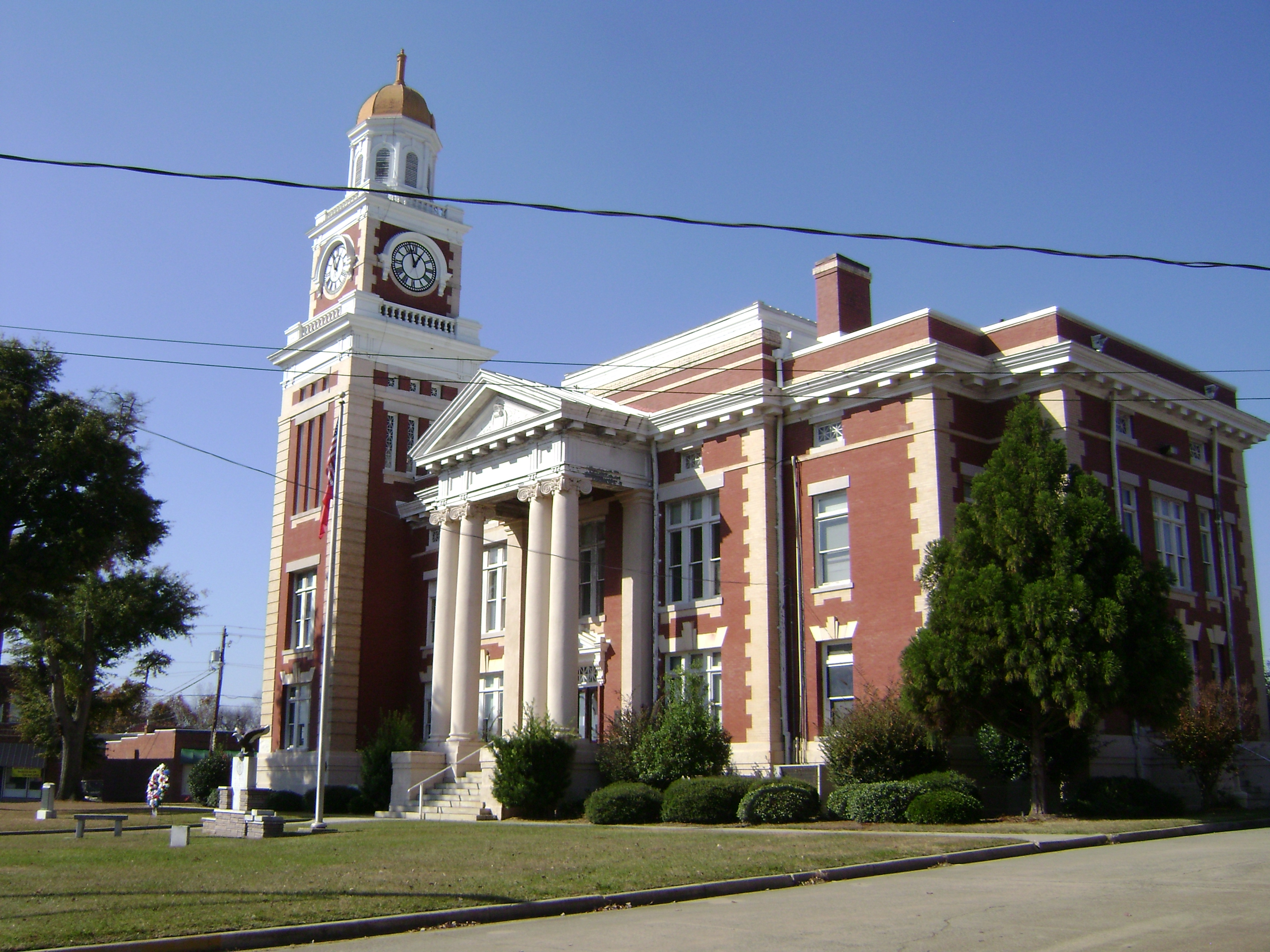 Turner County Courthouse from SE corner